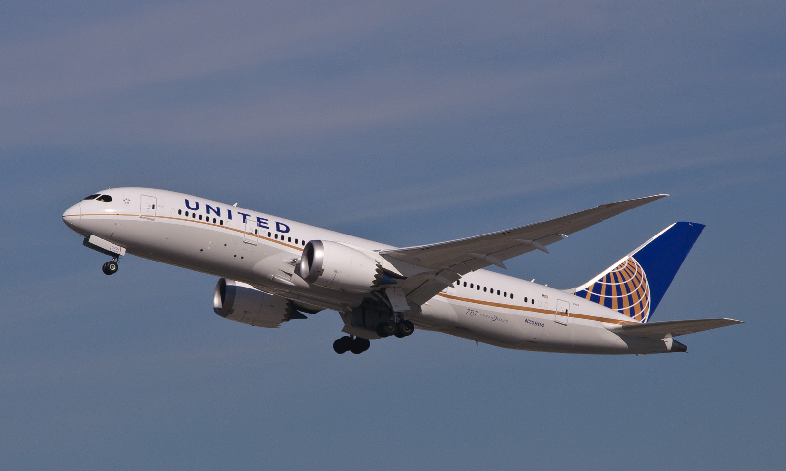 Some planespotting for the very first weekend of 2013 - in anticipation of seeing the new United 787 services to/from Tokyo. (And I was far from alone - plenty of hardcore planespotters, all of male middle-aged persuasion except for yours truly.) And here it is - United's very first 787, N20904, embarking on her first revenue international run, United 32 to Tokyo Narita. What a gorgeous sight! This flight replaces United 891, which was usually done with a legacy United 777 and occasionally with a 747 in high season. The flight number change is due to the fact that these early 787s, by virtue of being ordered and configured by Continental prior to the merger, are considered Continental aircraft, therefore using the 787 requires the use of a flight number in the Continental international range (United flight numbers 1-200) rather than legacy United international range (800-999). At this point there were three United 787s at LAX - this one, the second one (N26906) having just completed the return flight United 33 from Narita, and the third one (N26902) parked outside the hangar. That is half of the current United 787 fleet so far. N20904, Boeing 787-8